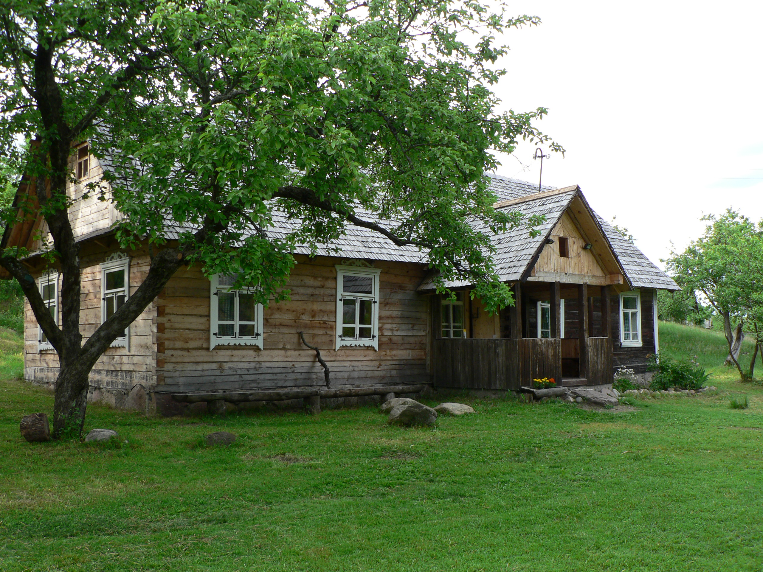 Wooden house in Kapiniskes village, Lithuania. Author: Wojsyl, 2005